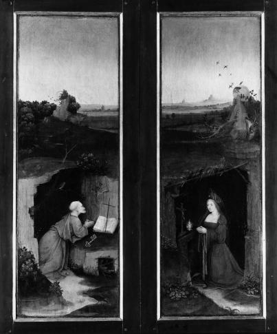 Exterior of a triptych. For the interior see File:School of Jheronimus Bosch Adoration of the Magi Anderlecht.jpg.